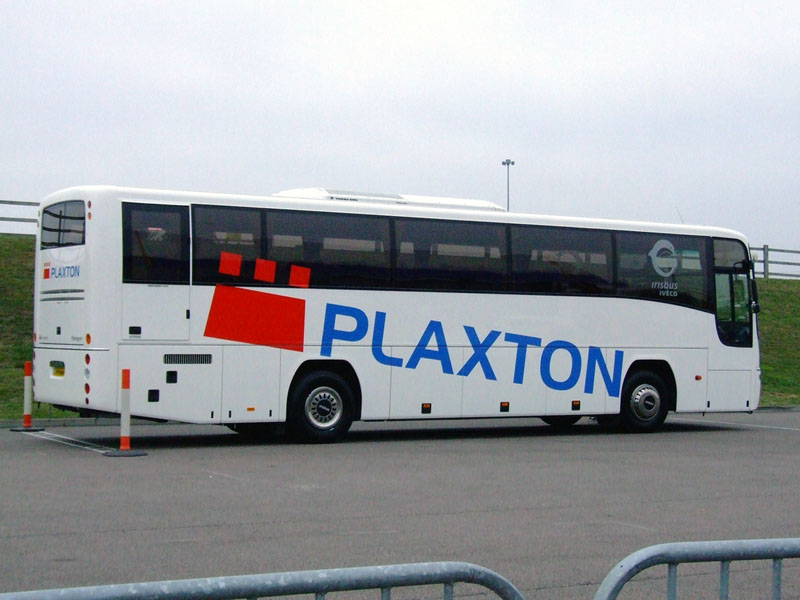 A Plaxton Paragon demonstrator coach, on an Irisbus chassis.